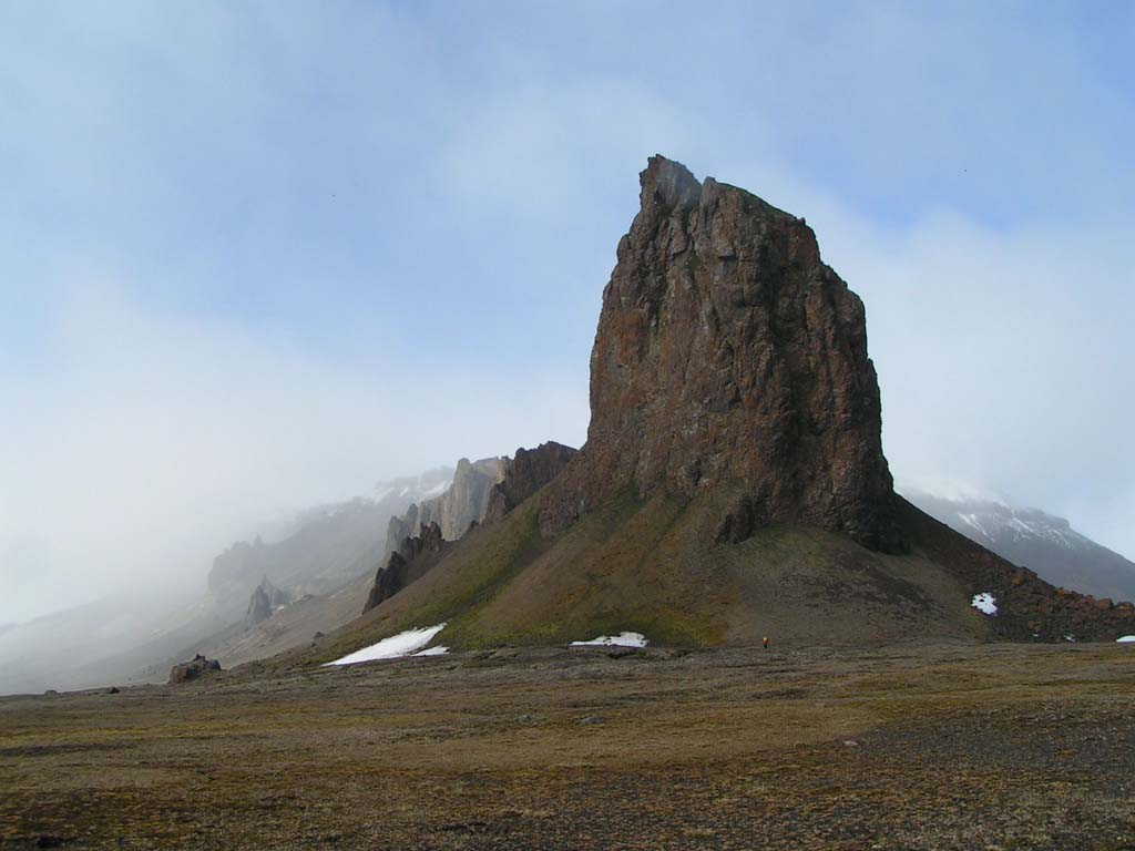 Cape Tegethoff on Hall Island, Franz Joseph Land